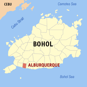 Map of Bohol showing the location of Alburquerque